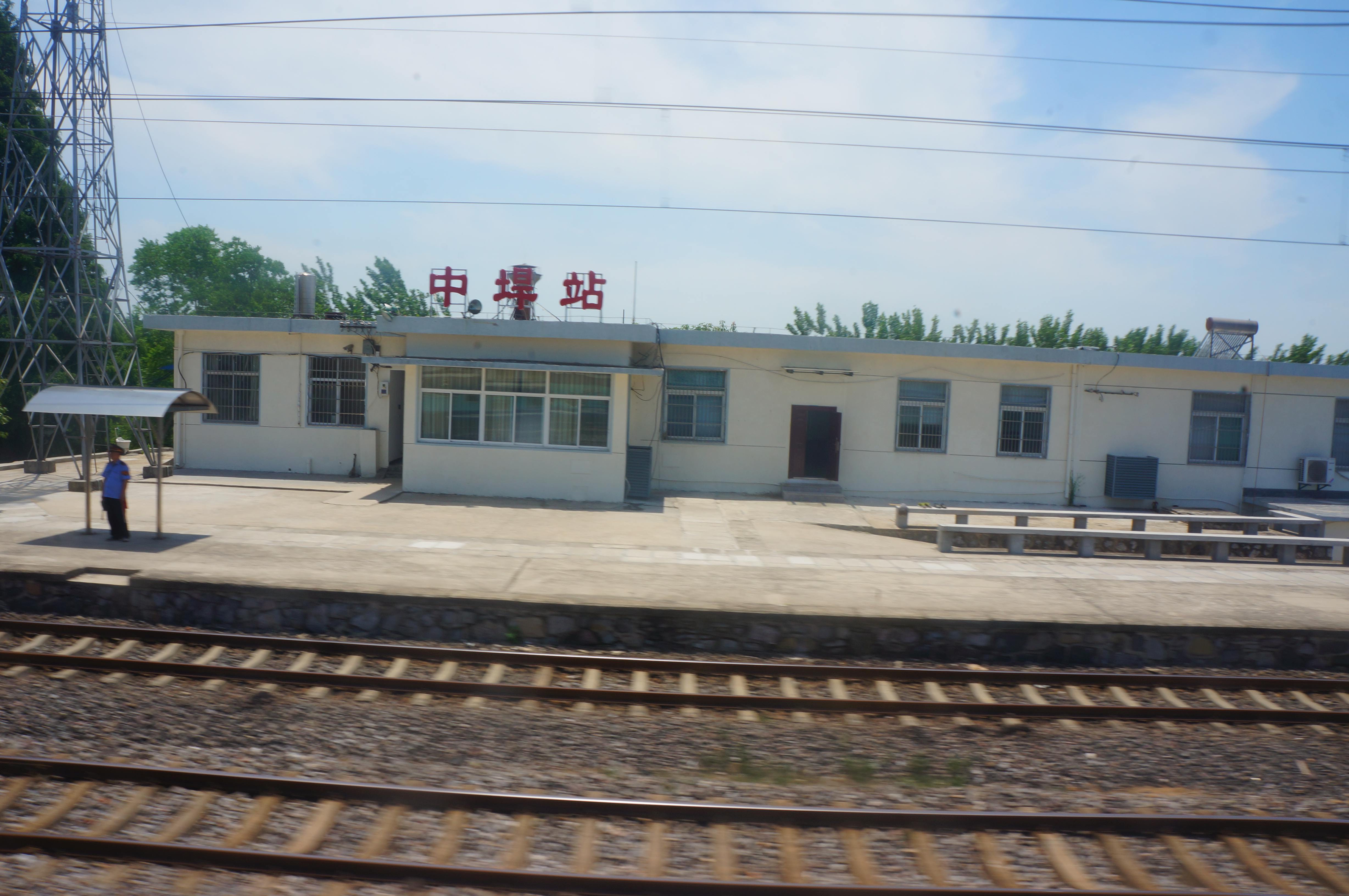 201705 Conductor of Zhonghan Station. Still the similar style